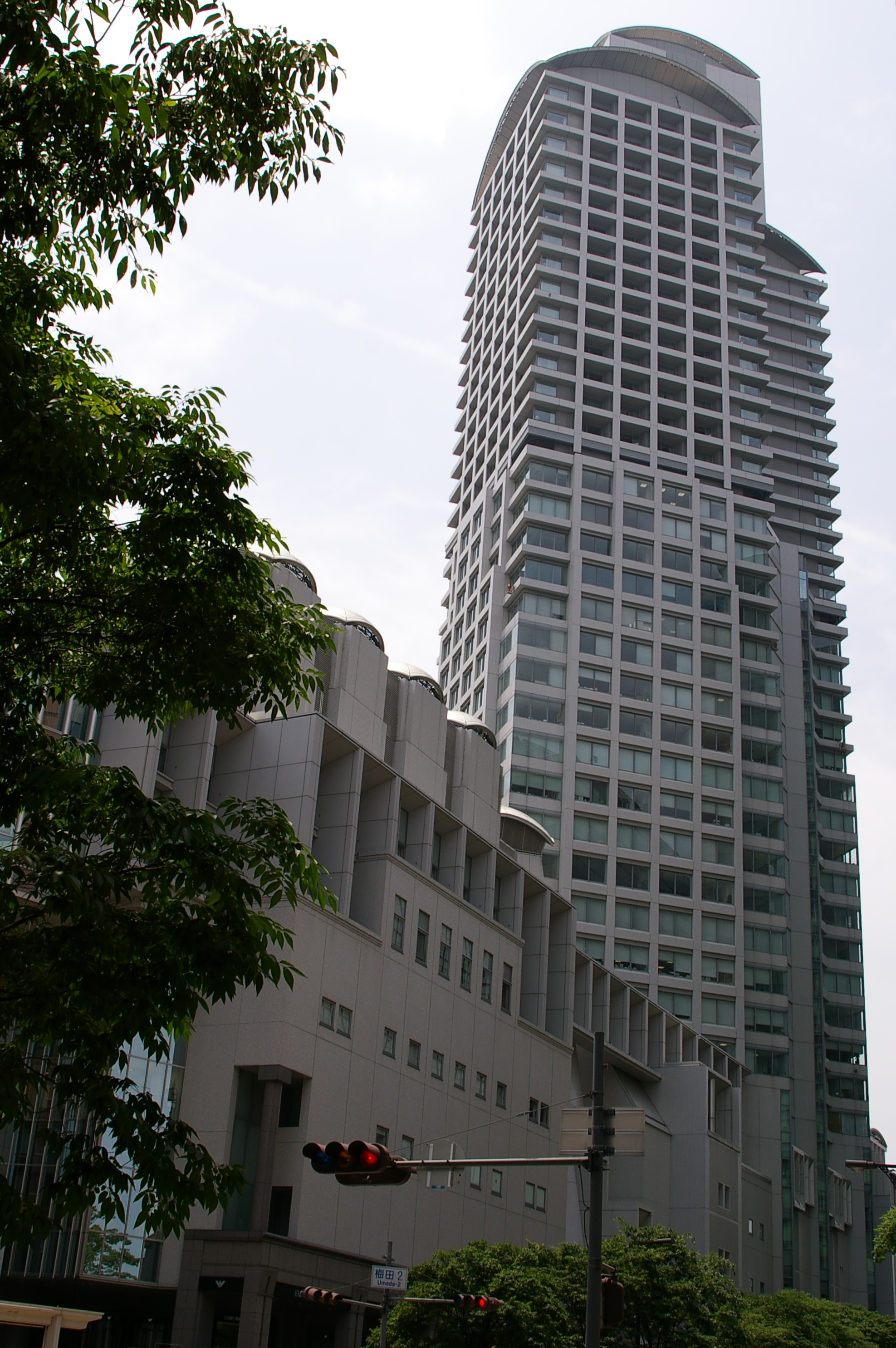 Photograph of Umeda Hanshin Dai-ichi Building, also called as HERBIS OSAKA, in Kita-ku, Osaka, Osaka Prefecture, Japan.